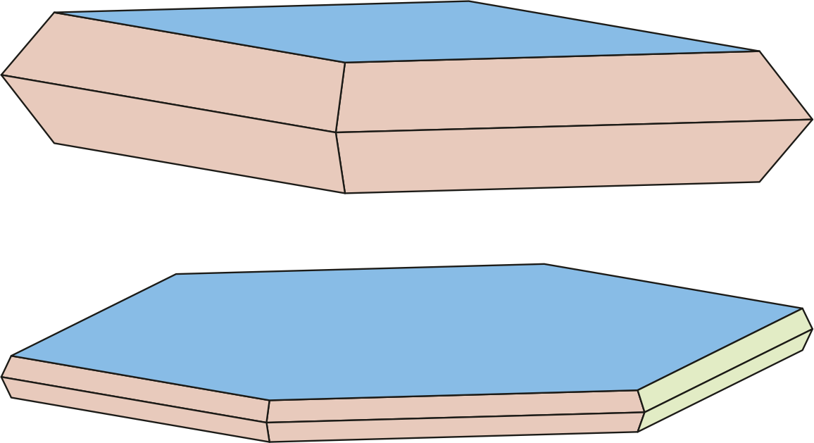 Drawing of Pucherite crystals from Reichenbach im Odenwald; reference: Petitjean (2000), Lapis 25 (2), 22